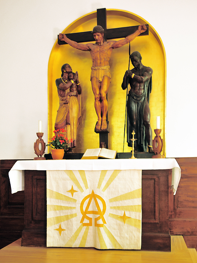 Altar with a crucifixion group in the prayer hall of the Mission House from the Evangelical Lutheran Mission in Leipzig in D 04103 Leipzig, Paul-List-Straße 17.